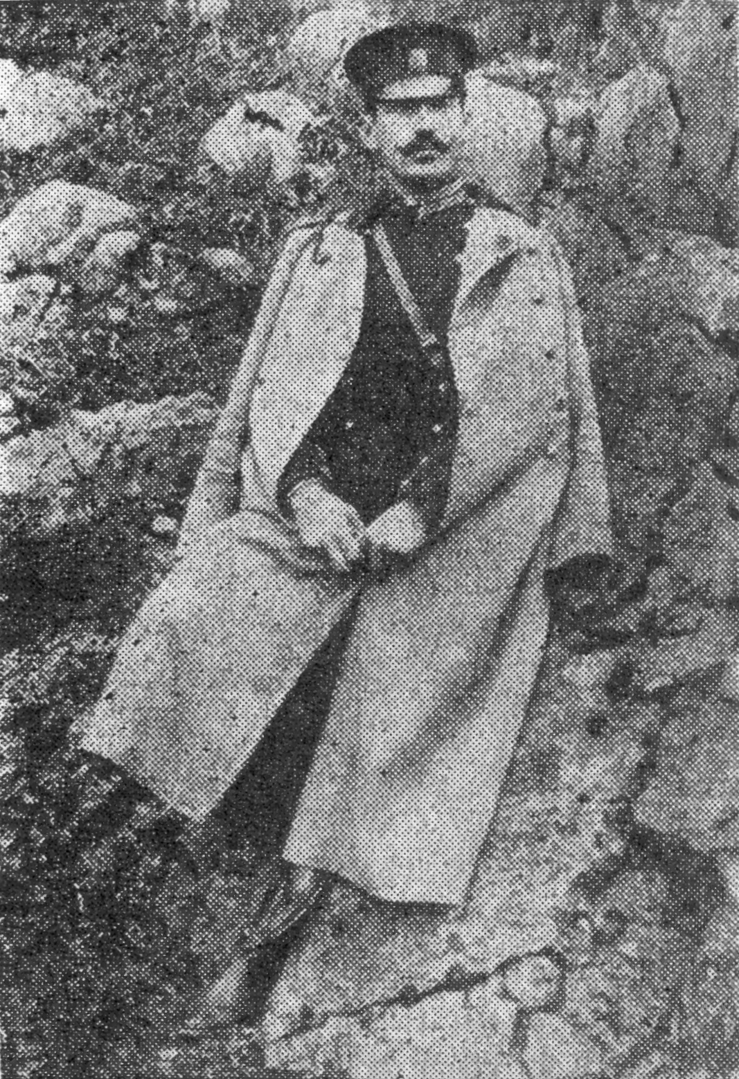 Bulgarian composer Alexander Morfov (1880-1934)